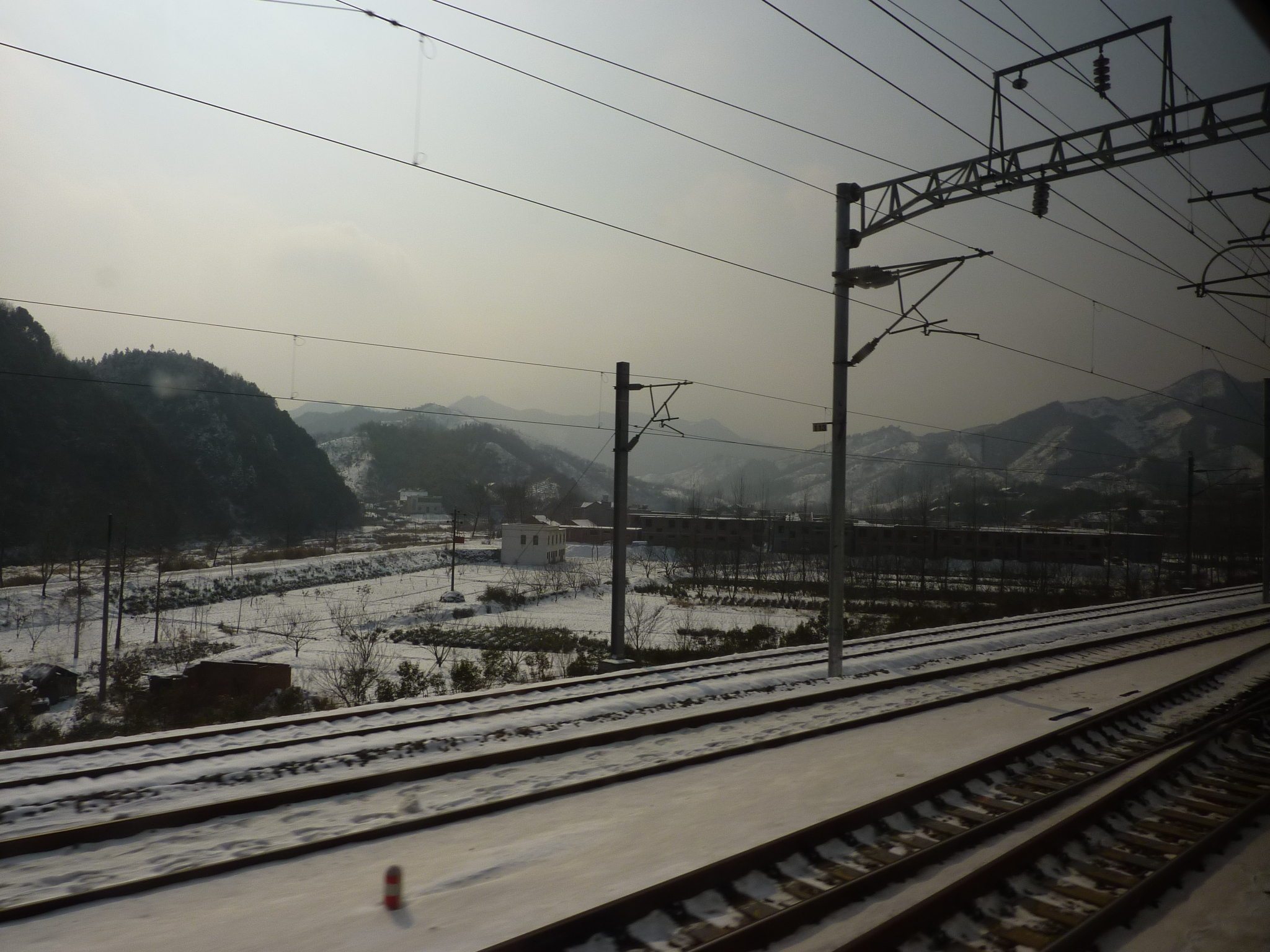 Mountainous landscapes (Dabie Mountains) of Jinzhai County, Anhui, seen form a train running on the Hewu (Henan-Wuhan) Railway.